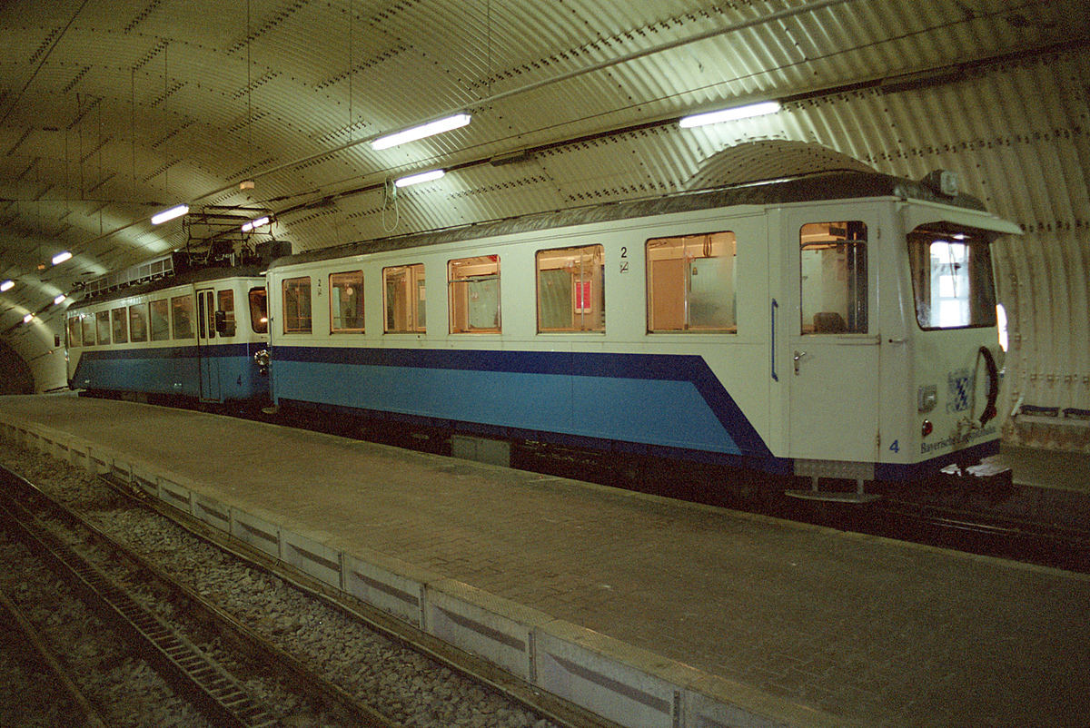 train of the "Zugspitzbahn" in the upper end tunnel-trainstation own picture, taken in 2002